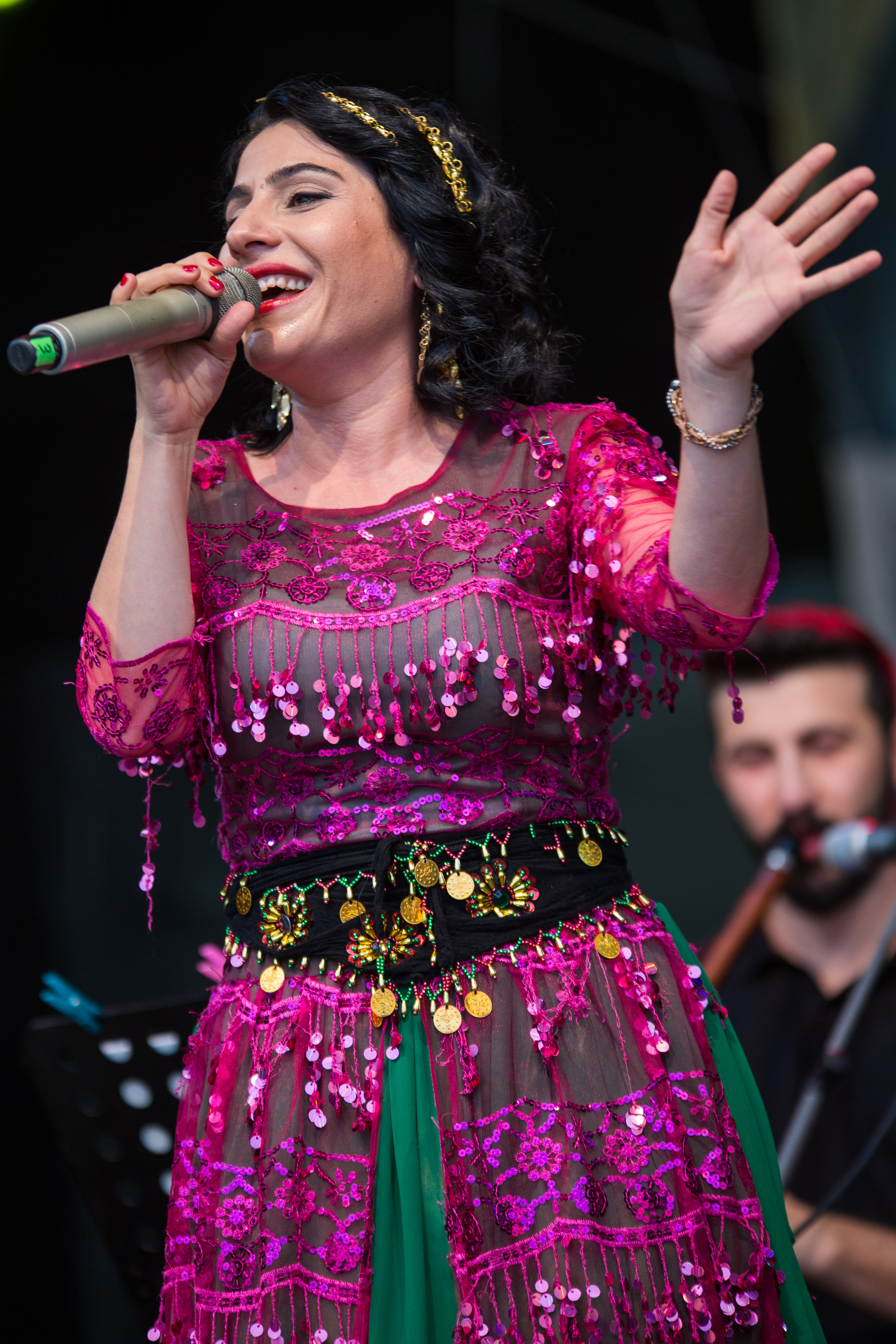 Rojda Şenses TTF.Rudolstadt 2015 Festivalsommer This photo was created with the support of donations to Wikimedia Deutschland in the context of the CPB project "Festival Summer".